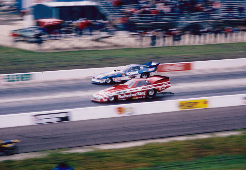 Kenny Bernstein in the "Budweiser King" vs. Tom McEwen in Raymond Beadle's Kodiak "Blue Max" car. Beadle was one of the top drivers and was absolutely fearless. I don't remember why he wasn't driving at this event but it would take something major for him not to be in it. Having Tom McEwen fill in for you is a pretty big deal.1987 NHRA Winston All-Stars, Texas Motorplex